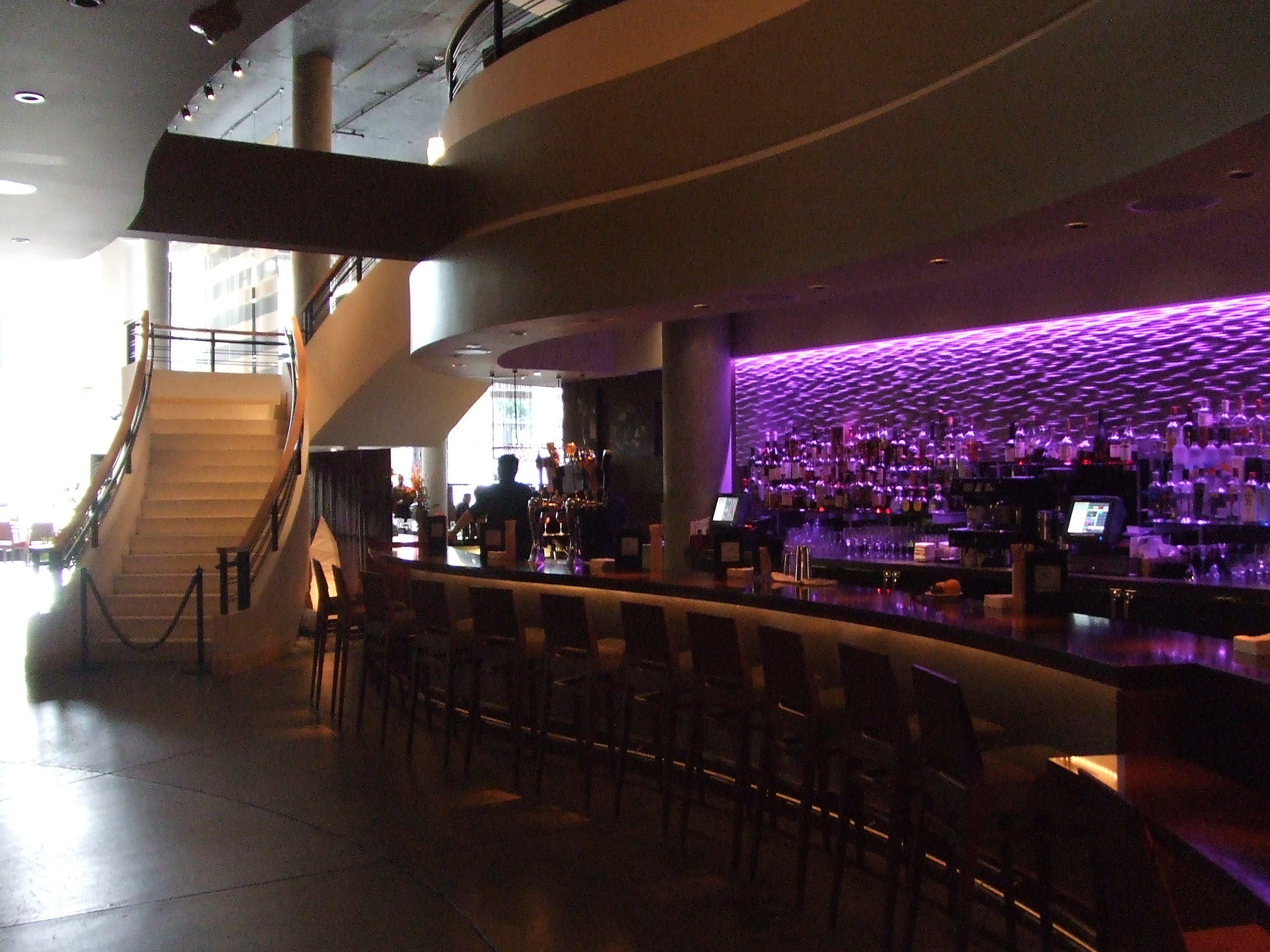 Yoshi's San Francisco